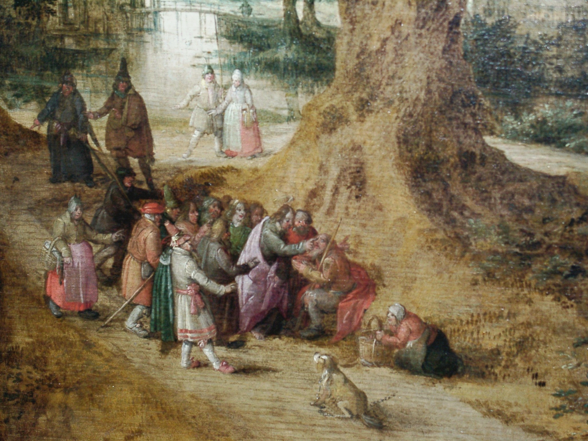 Jesus healing the blind